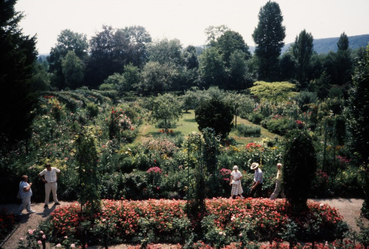 Monet's Garden 1989